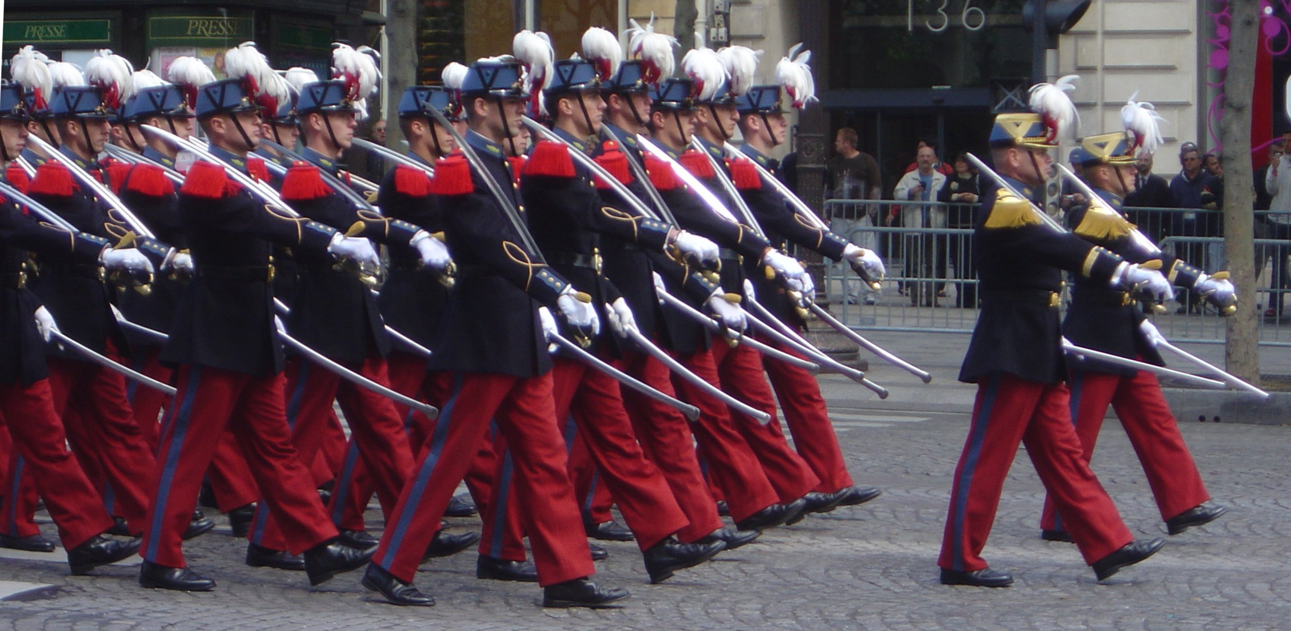 École spéciale militaire de Saint-Cyr, cadets parading on the Champs-Élysées on May 8, 2005